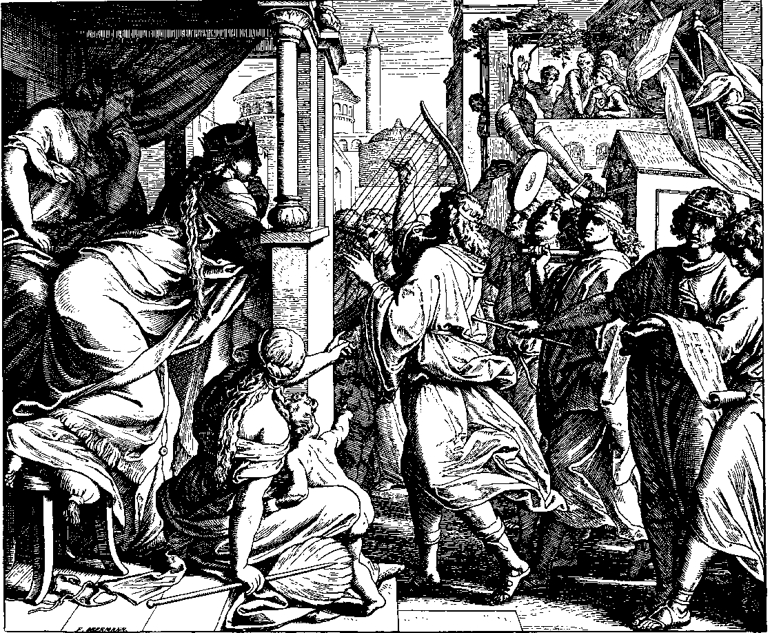 Woodcut for "Die Bibel in Bildern", 1860.